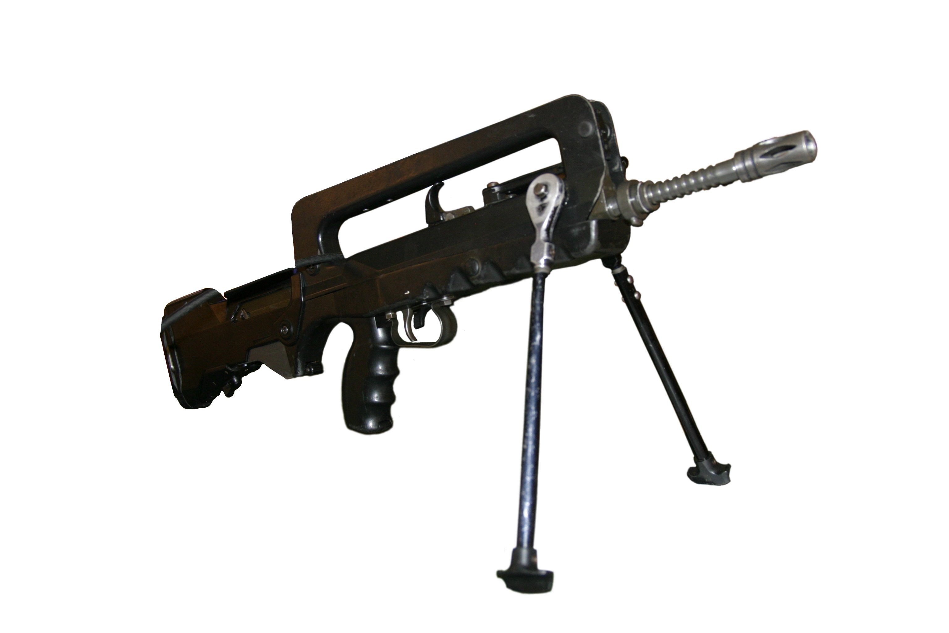 FAMAS rifle